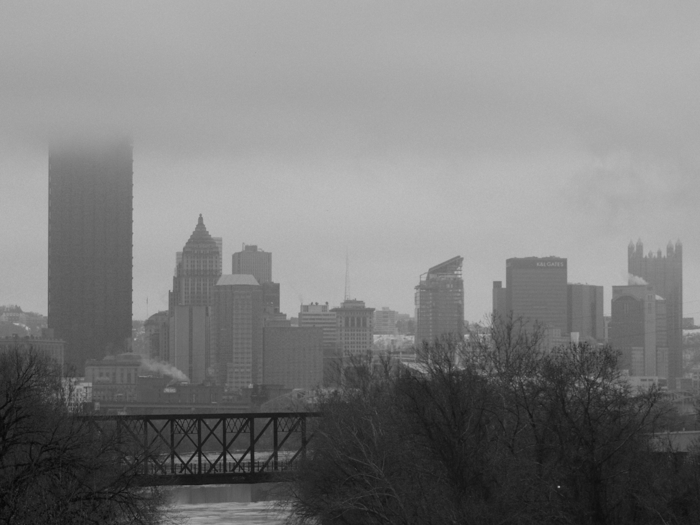 The skyline of downtown Pittsburgh as seen from the 31st Street Bridge at Washington’s Landing